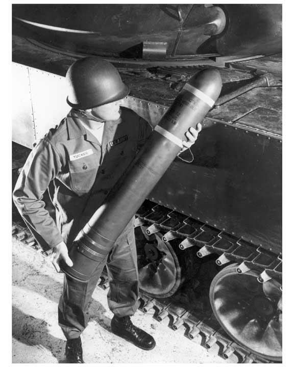 US soldier holding MGM-51 Shillelagh anti-tank missile